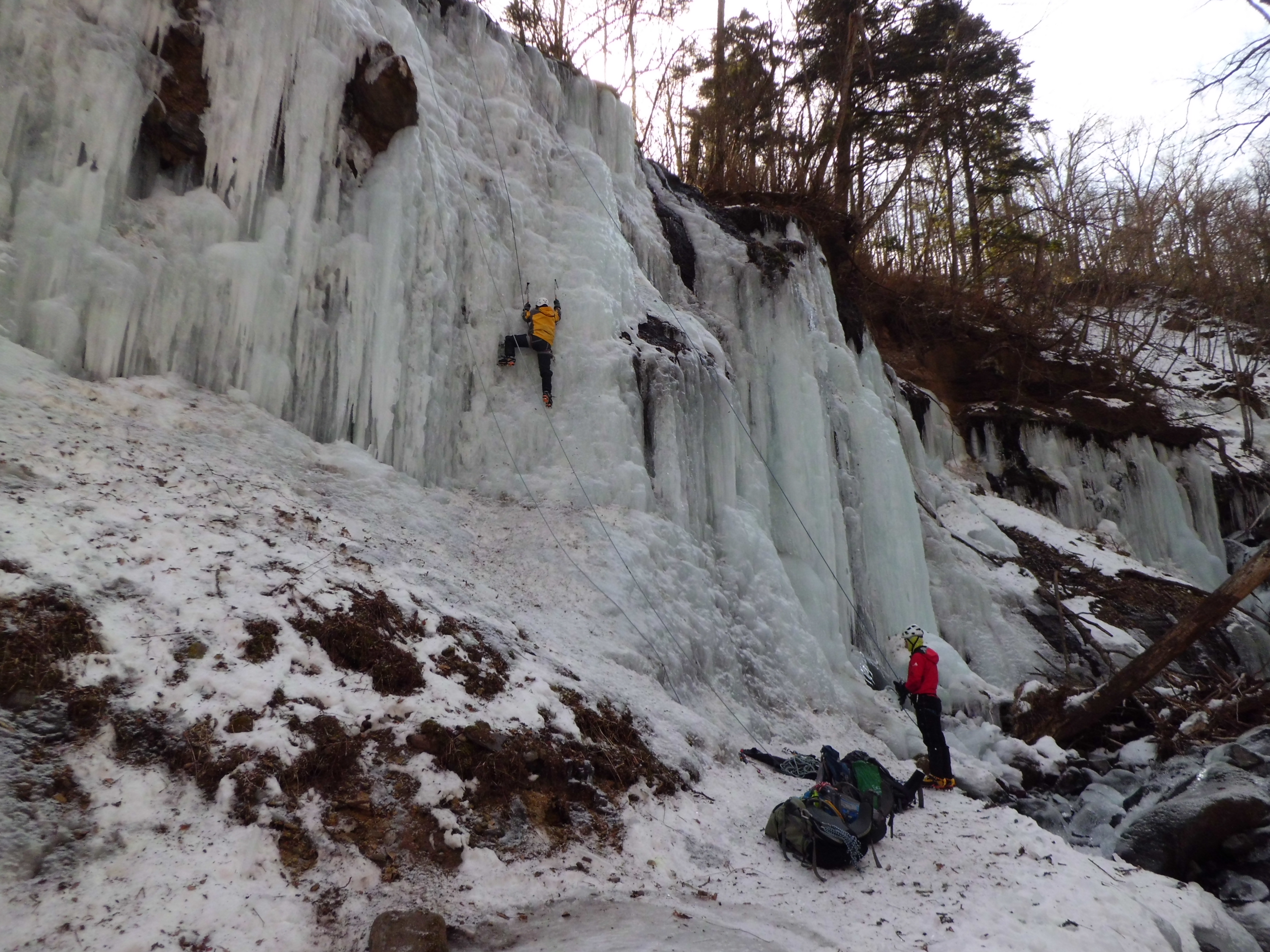 Ice wall on Yugawa valley of Minamimaki village, Minamisaku-gun, Nagano prefecture, Japan.